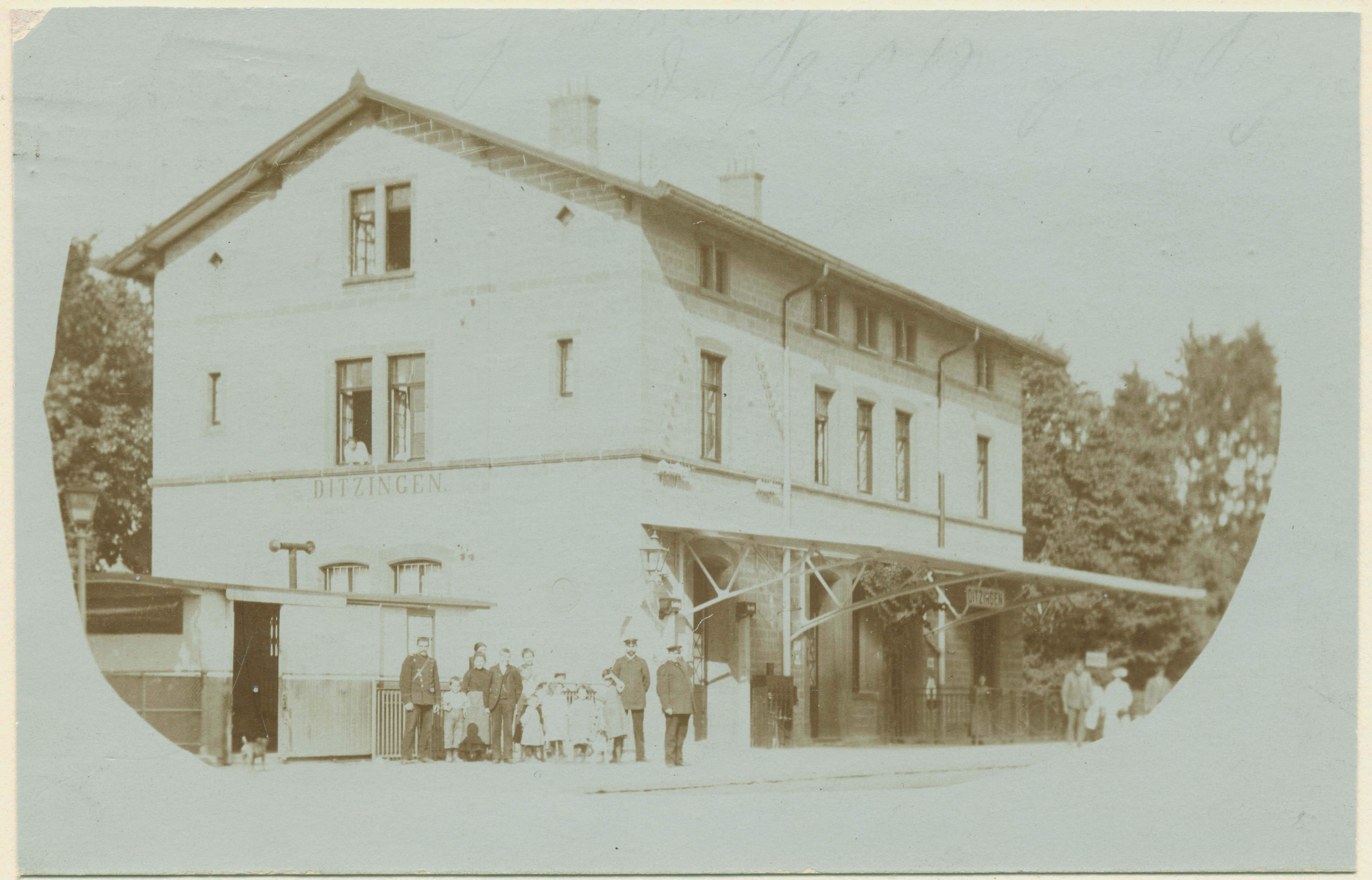 Station Master Karl Gruber at Ditzingen Station